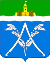 Coat of arms of Mingrelskaya, Abinsk raion, Krasnodar Krai, Russia.